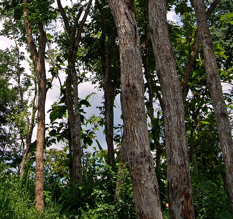 Dalbergia latifolia bark. Banyumas, Central Java, Indonesia.